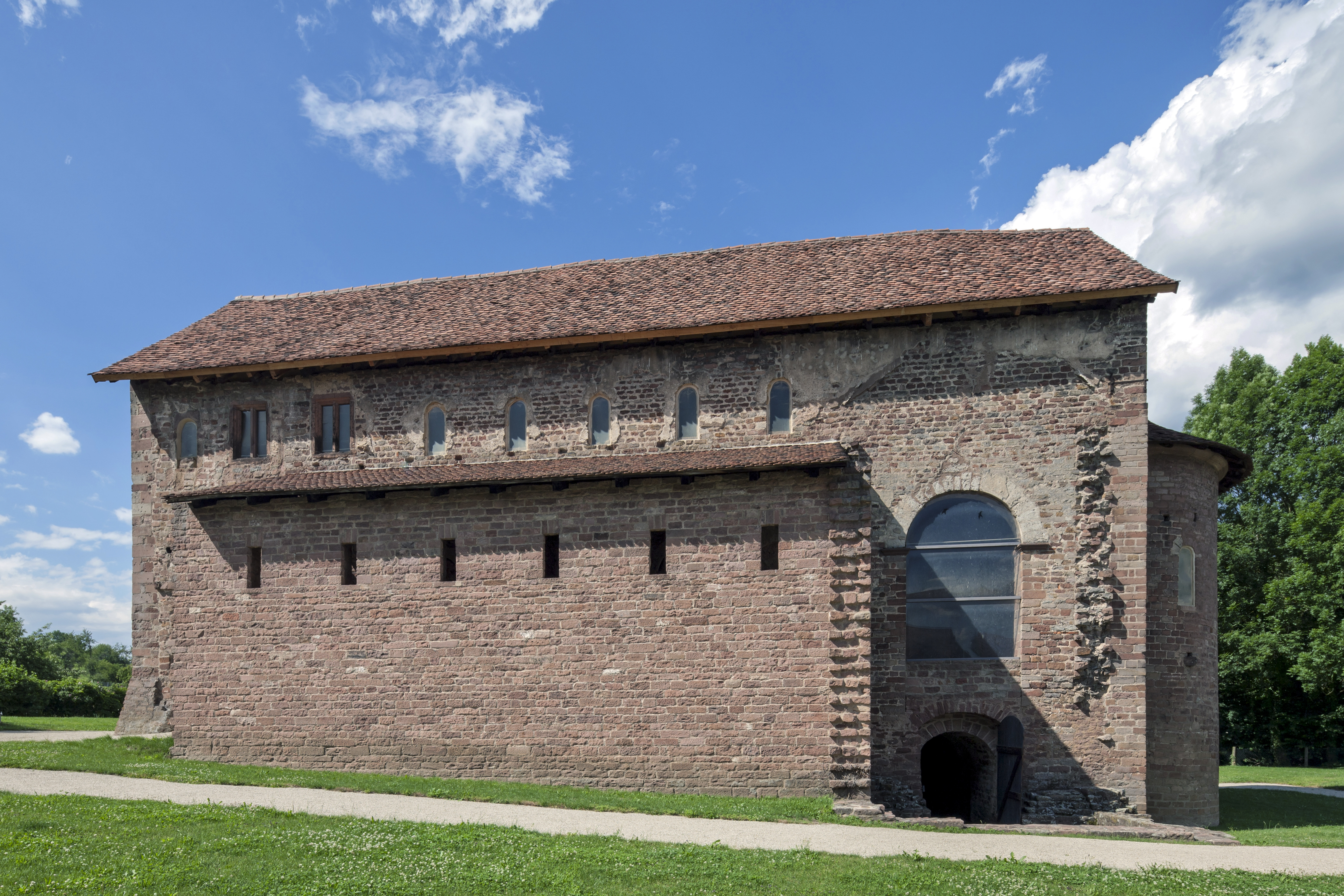 Michelstadt-Steinbach: Einhardsbasilika (Einhard Basilica) as seen from the south